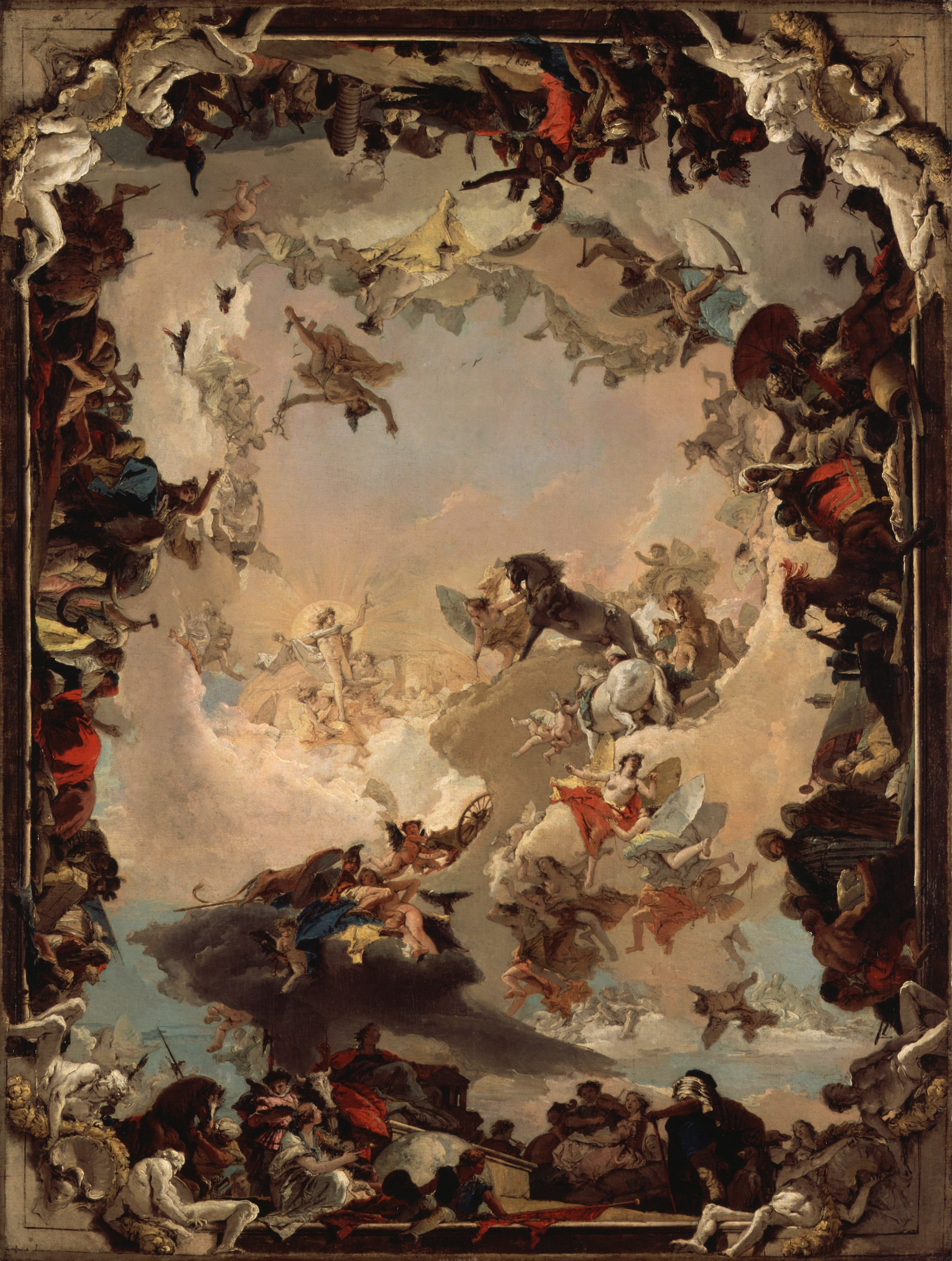 Painting, sketch; Paintings